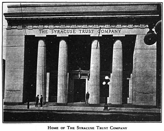 Syracuse Trust Company 1913